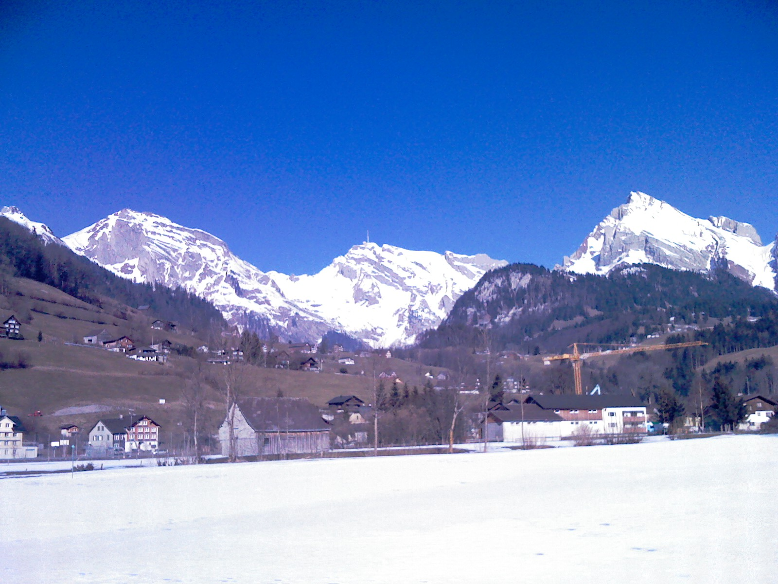 Säntis massif with view from Unterwasser - Säntis-masivo vidita de Unterwasser